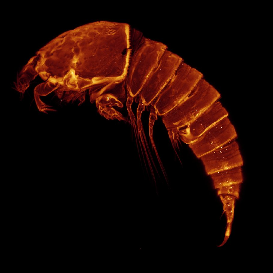 Lateral view of Huntemania jadensis.